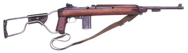 M1A1 Carbine Cal. .30 with folding metal stock